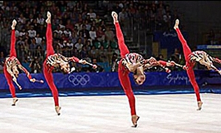 Greece's Rhythmic Gymnastics Group perform with Clubs at the 2000 Sydney Olympics